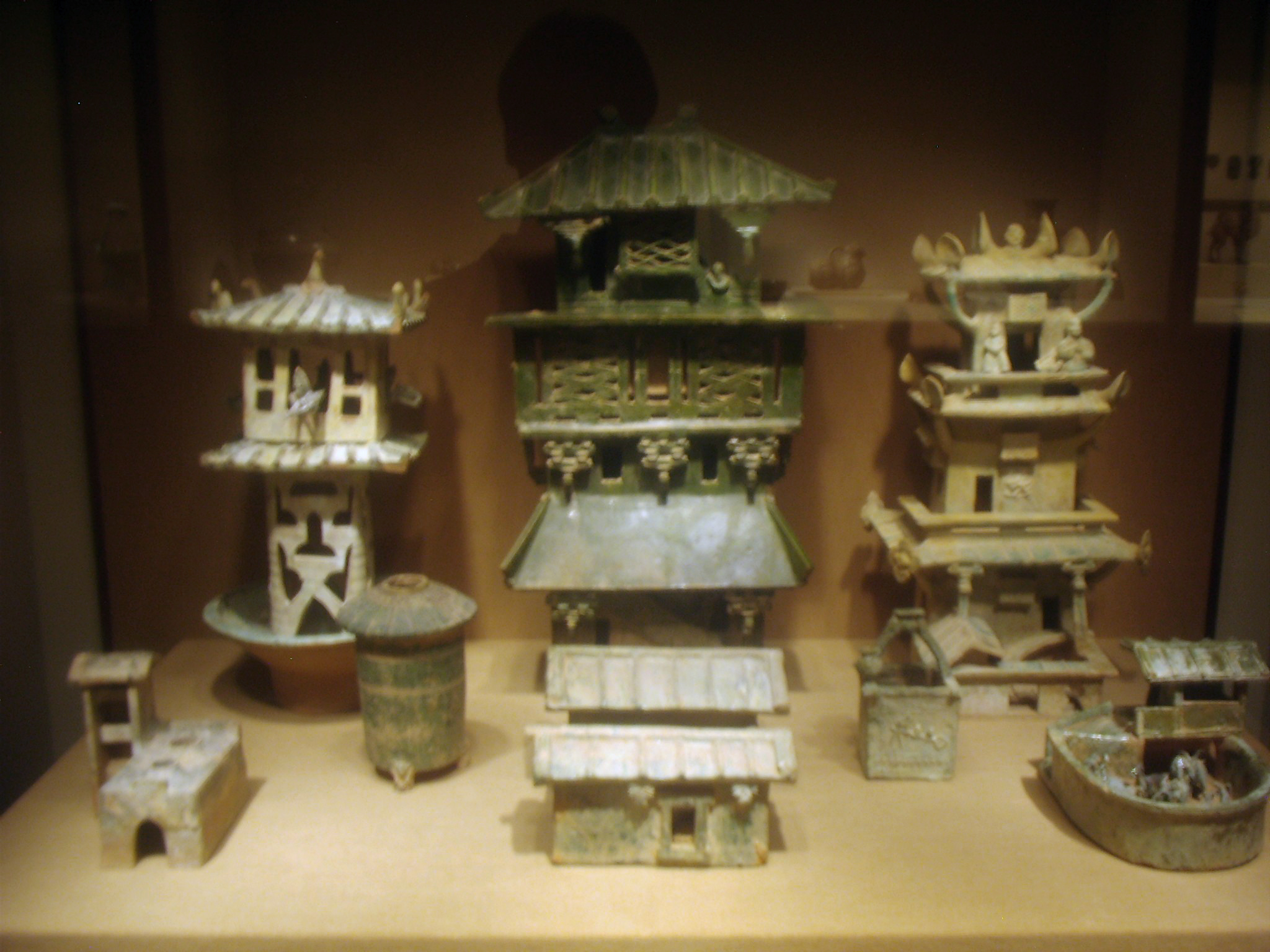 This is one of twelve pictures showing architectural models dated to the Chinese Eastern Han Dynasty (25–220 AD), made of earthenware with a green lead glaze, featured at the Metropolitan Museum of Art in New York City. The items include: Three watchtowers House with a courtyard Granary tower A large stove A mill A wellhead with a bucket Domesticated animal pens A square duck pond with rails